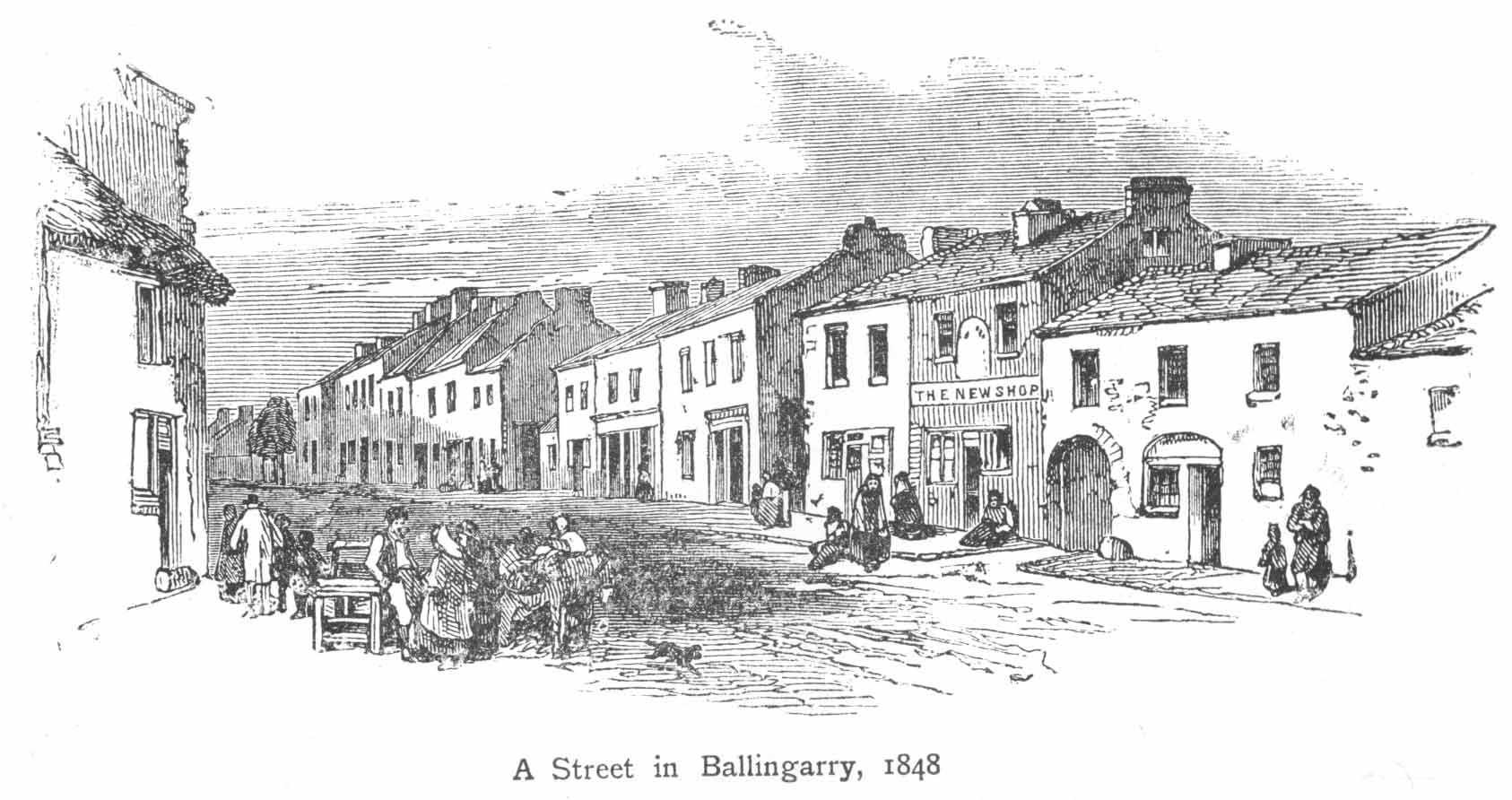 Ballingarry, 1848. Illustration from "Illustrated London News" (1848), reproduced in the 1920 edition of The Felon's Track.